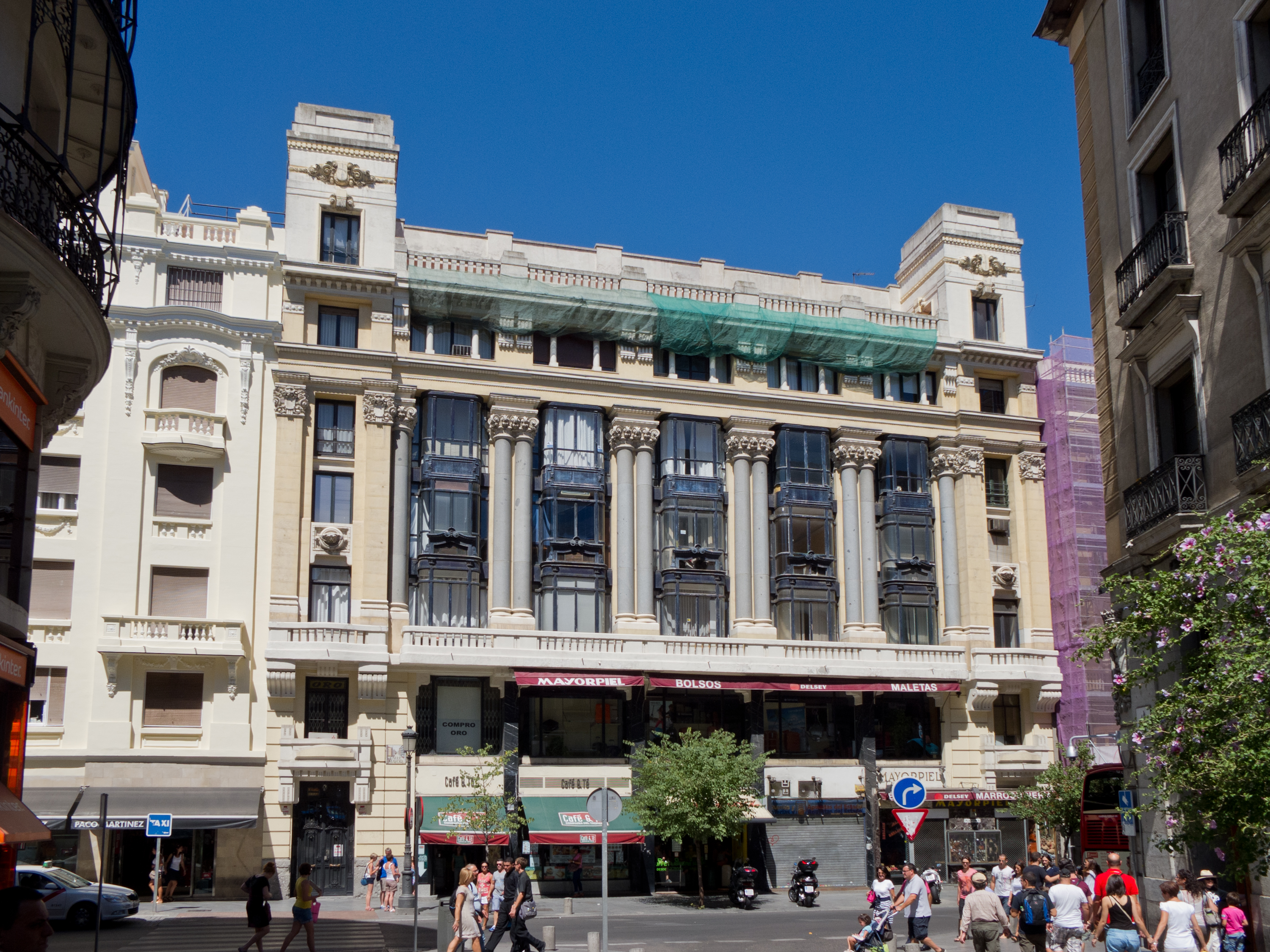 Palazuelo House, calle Mayor 4, Madrid, Spain.